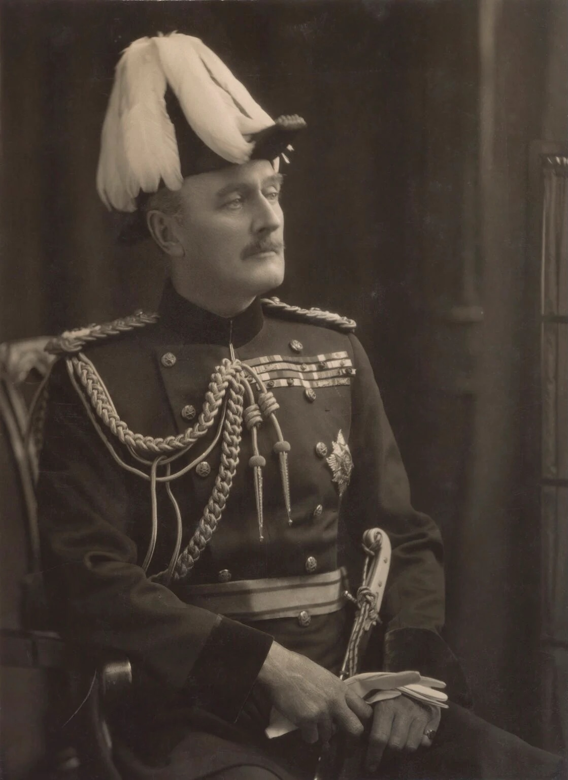 Edmund Allenby, 1st Viscount Allenby (1861-1936), british Field Marshall